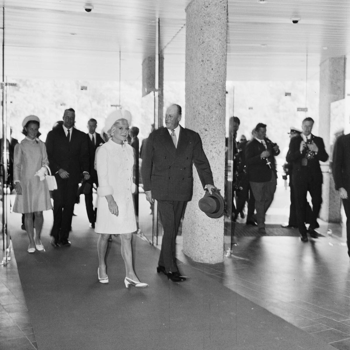 From the opening of Henie-Onstad Art Centre in 1968. In front: Sonja Henie and King Olav V, behind: Crown Princess Sonja and Crown Prince Harald